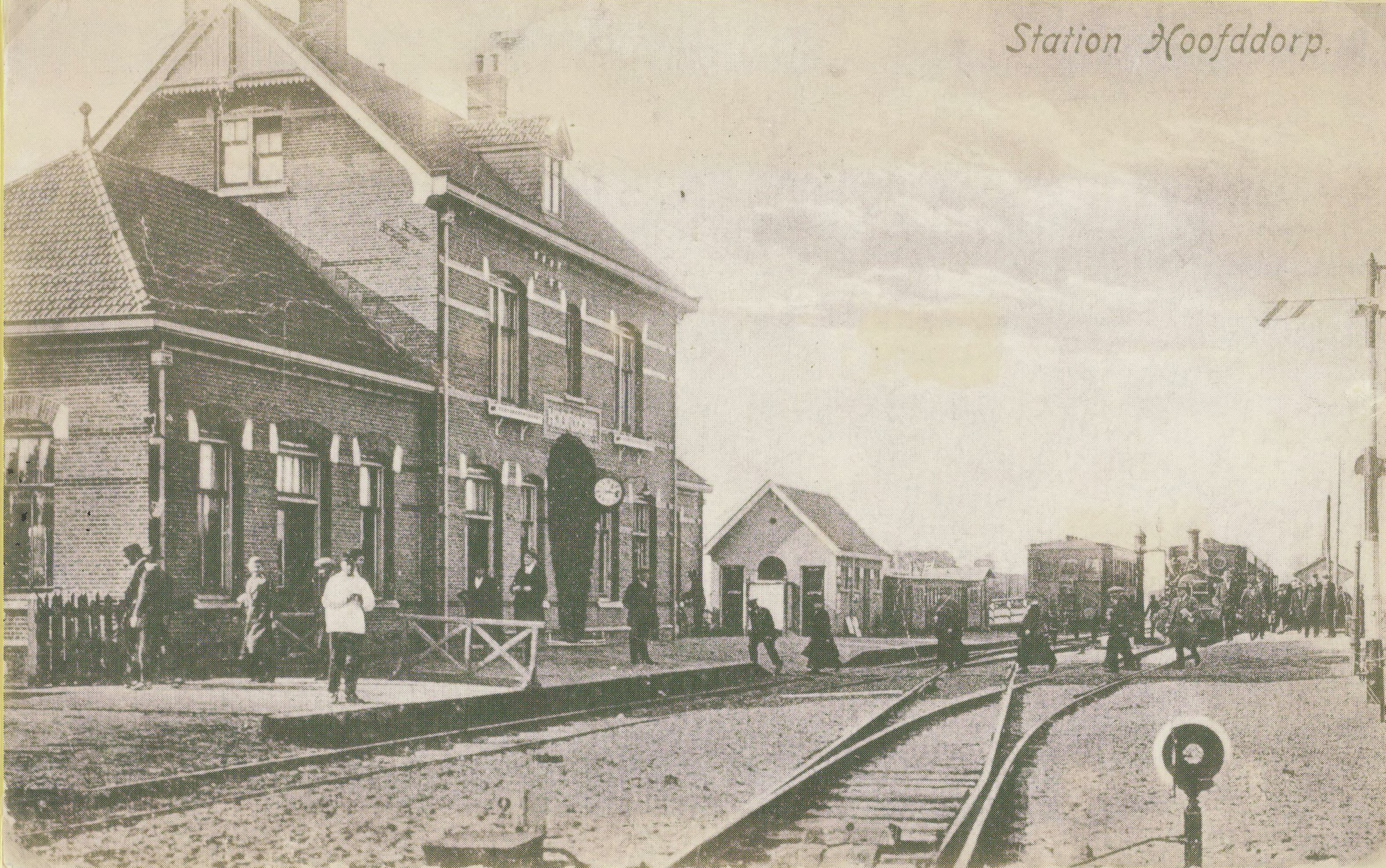 The old train station in Hoofddorp around 1912.